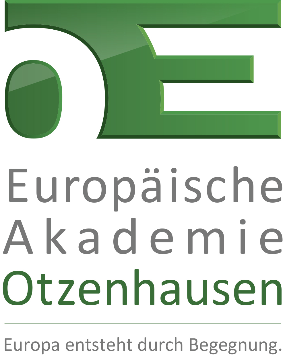 EAO Logo